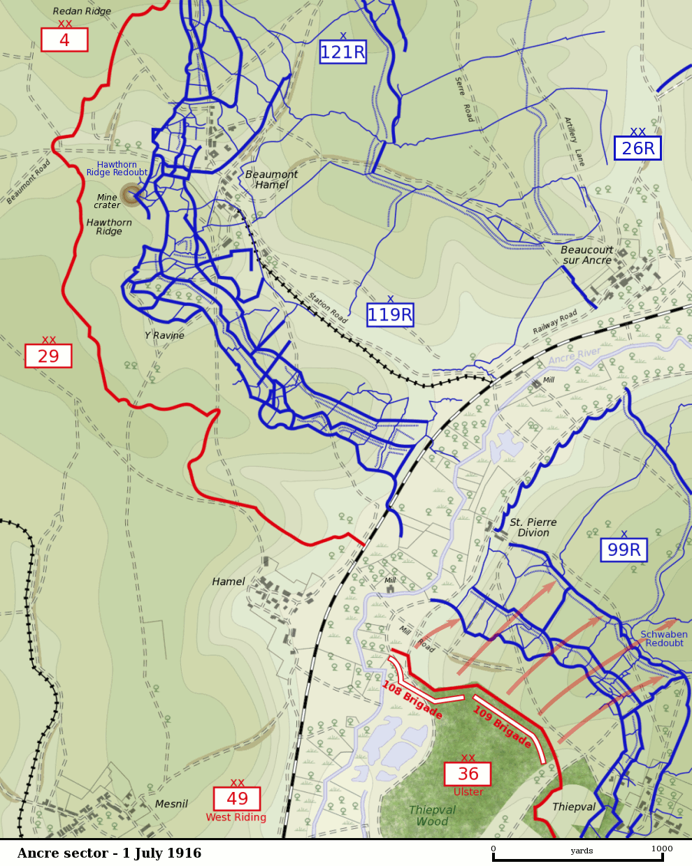 Map of the Ancre River sector of the Somme battlefield on the first day of the Battle of the Somme, 1 July 1916. British front line is shown in red. German trenches are shown in blue. German barbed wire is shown as dotted blue lines. The British divisions attacking on this sector were the British 29th Division at Beaumont Hamel and the 36th (Ulster) Division between the Ancre and Thiepval. The British 4th Division was attacking to the north towards Serre. The British 49th (West Riding) Division was in reserve. The sector was defended by the German 26th Reserve Division which had three regiments - 99th Reserve, 119th Reserve and 121st Reserve - in the front-line. The progress of the British 109th Brigade which captured the Schwaben Redoubt is shown.